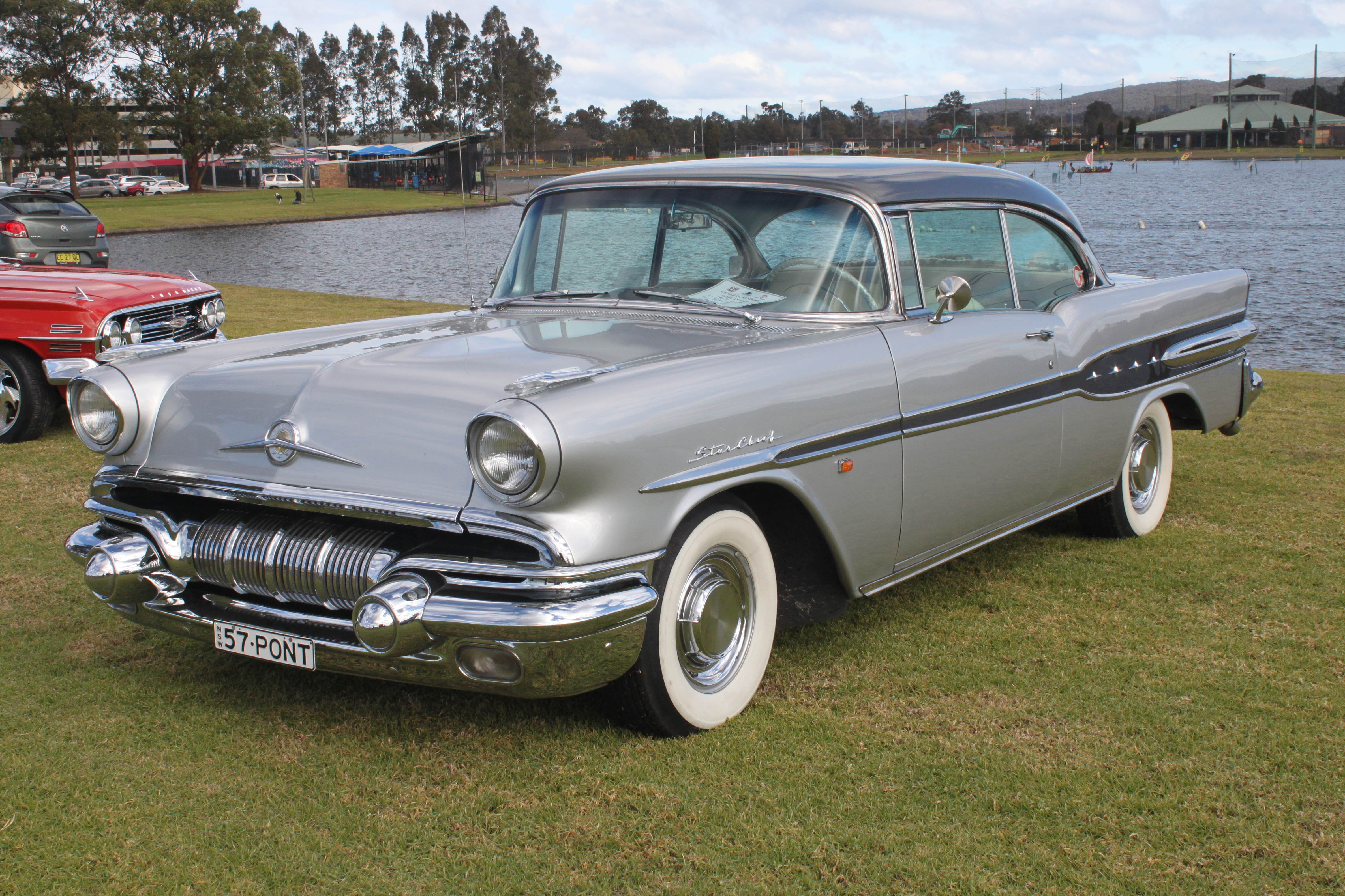 GM Display Day, Penrith Panthers, NSW July 2015